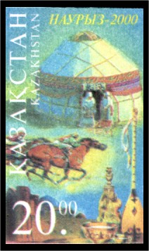 Stamp of Kazakhstan. 2000. March, 21. Holiday Nauryz. Offset printing, multicolored, size 43,0 х 25,5 mm, quantity of stamps per 10 pcs, without perforation. Designed by S. Marshev. Stamps imprinted in Banknote factory of National bank of the Republic of Kazakhstan.